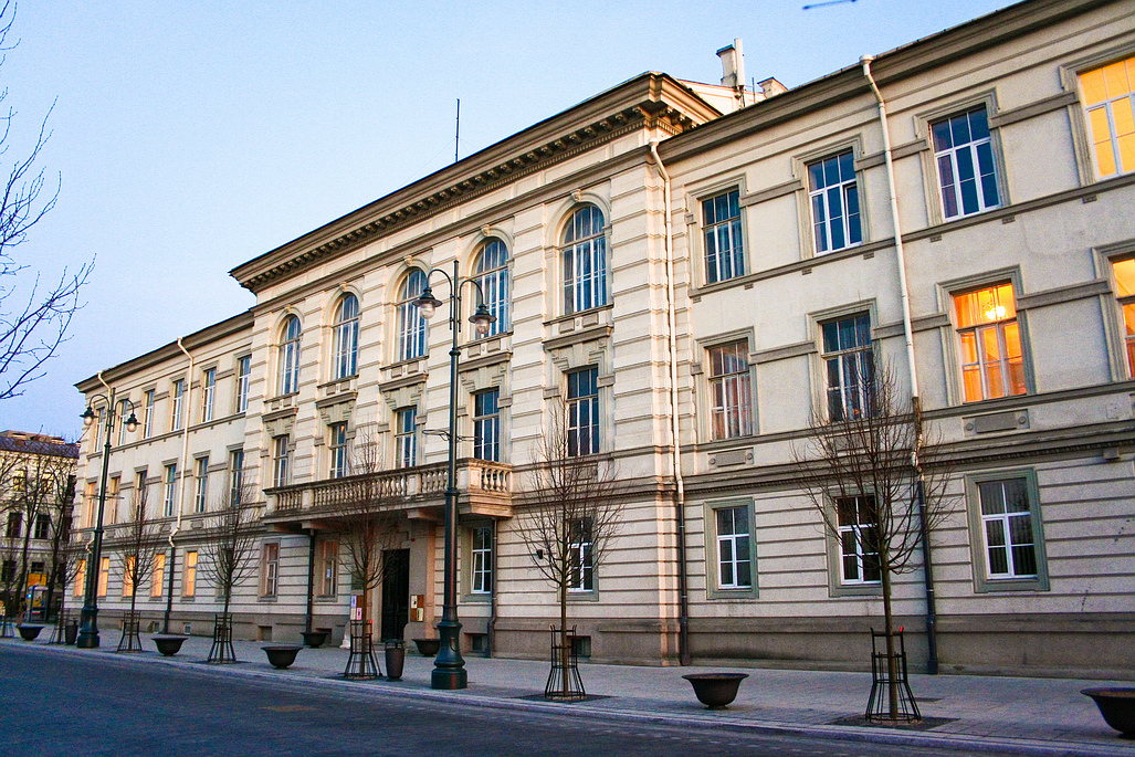 The Palace of the Lithuanian Academy of Music and Theatre in Vilnius